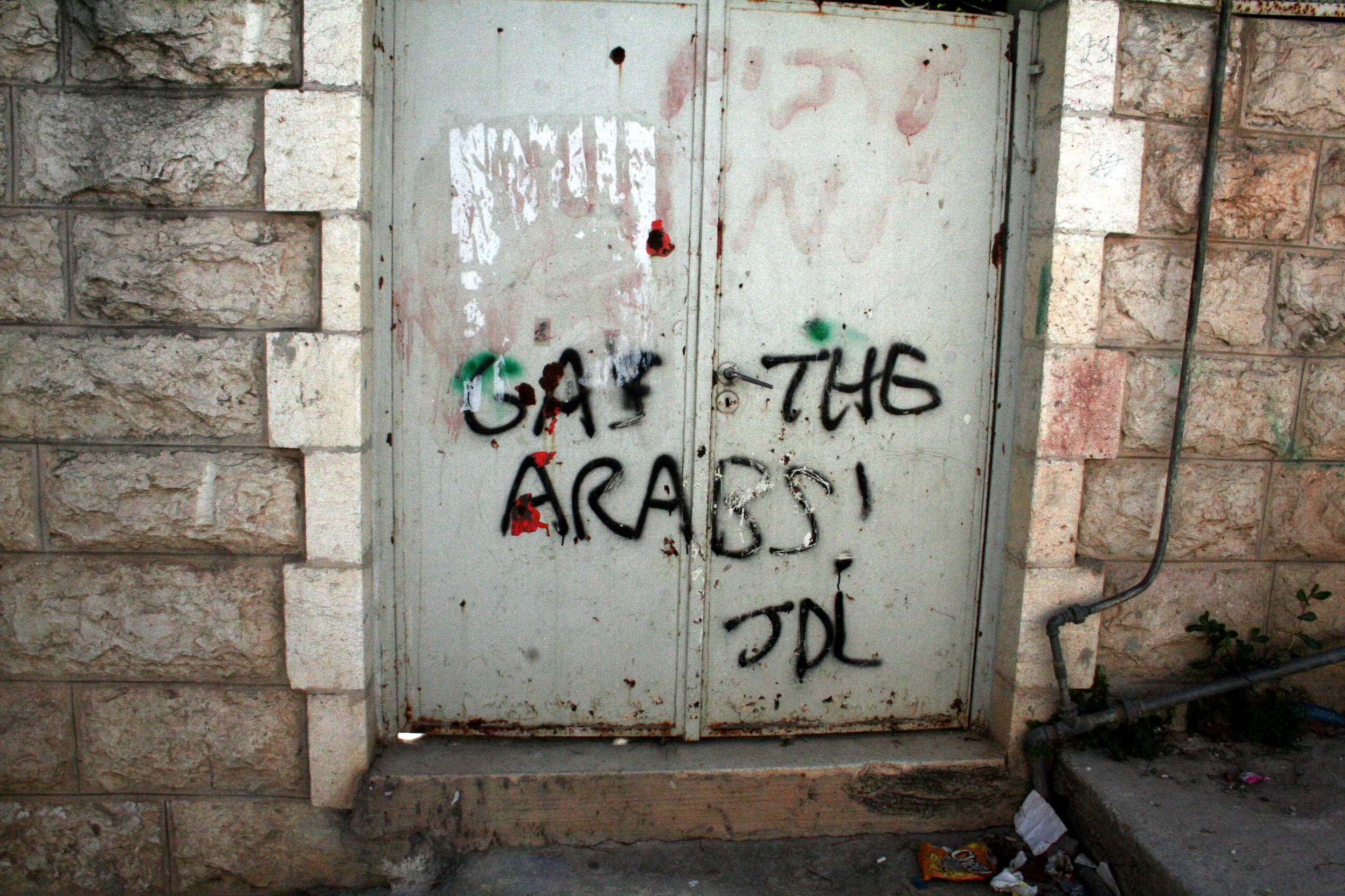 "Gas the Arabs" painted on the gate outside a Palestinian home in Hebron by Israeli settlers. It is signed "JDL" (Jewish Defence League).